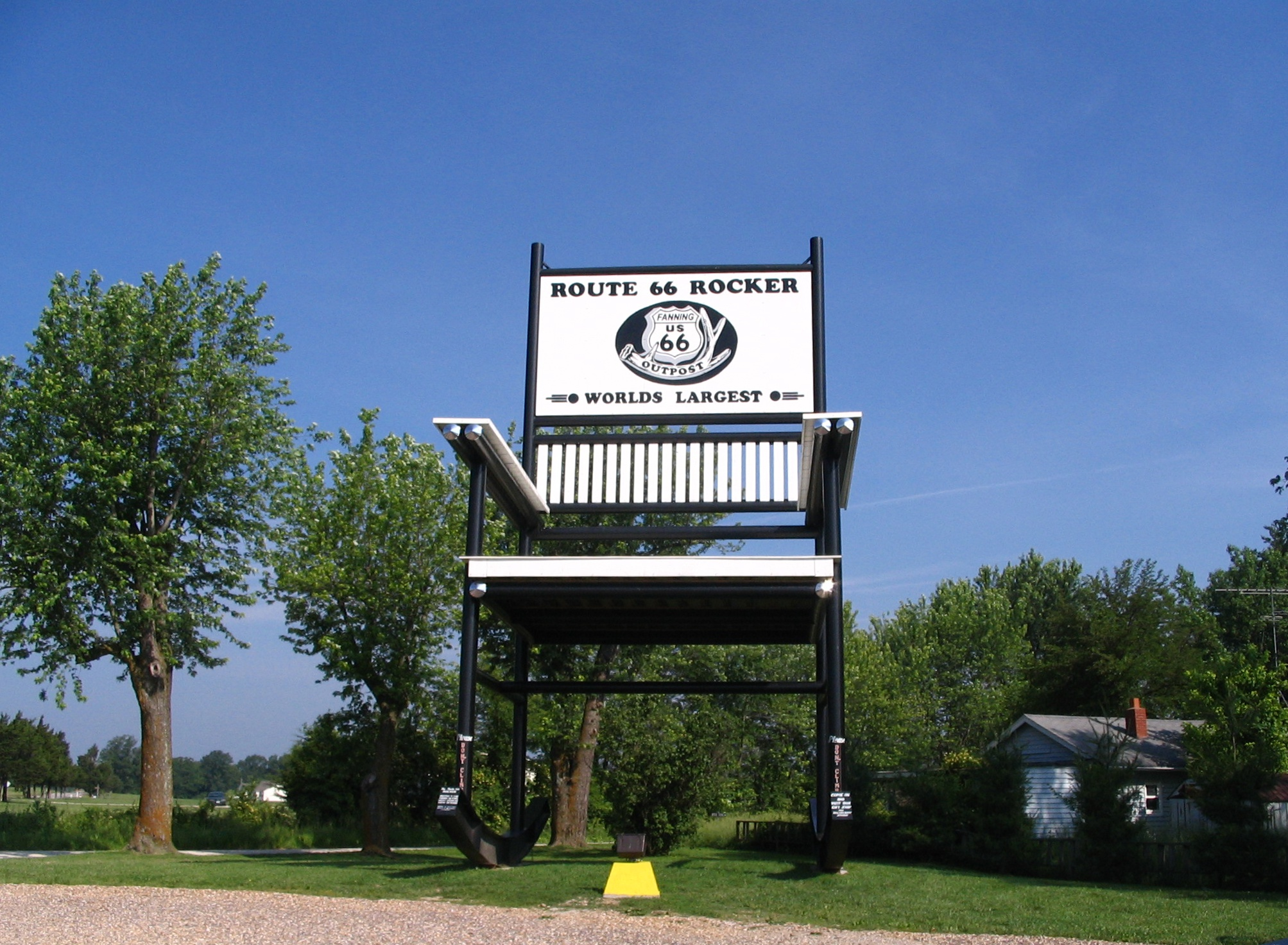 Designated as the World's largest Rocking chair in just west of Cuba, Missouri